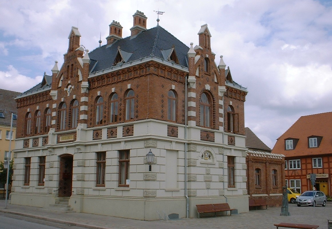 Town hall in Gnoien in Mecklenburg-Western Pomerania, Germany